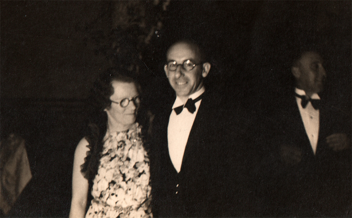 Violet McKenzie and husband Cecil McKenzie at a social function.